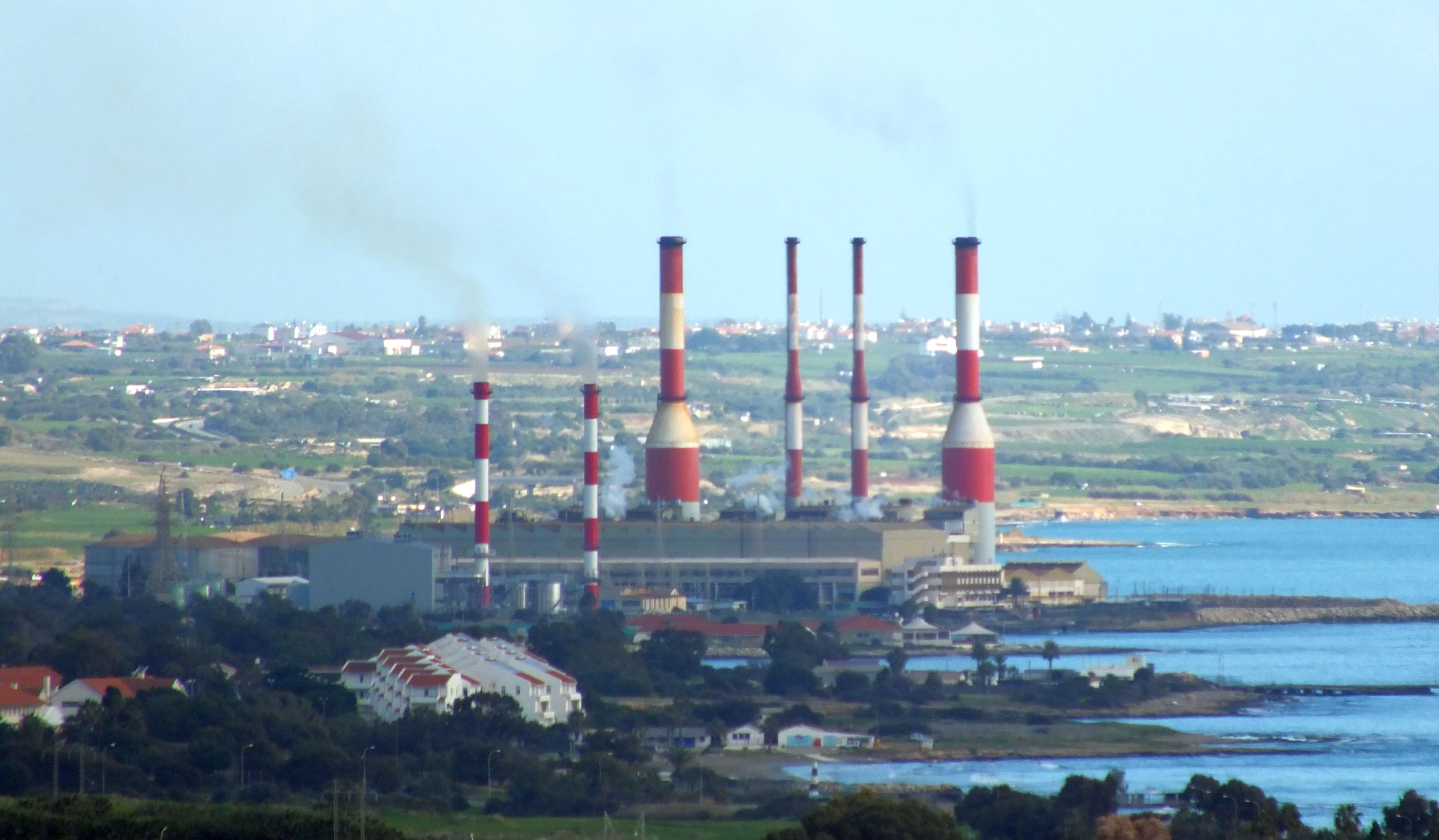 Dhekelia Power Station, near Larnaca, Cyprus